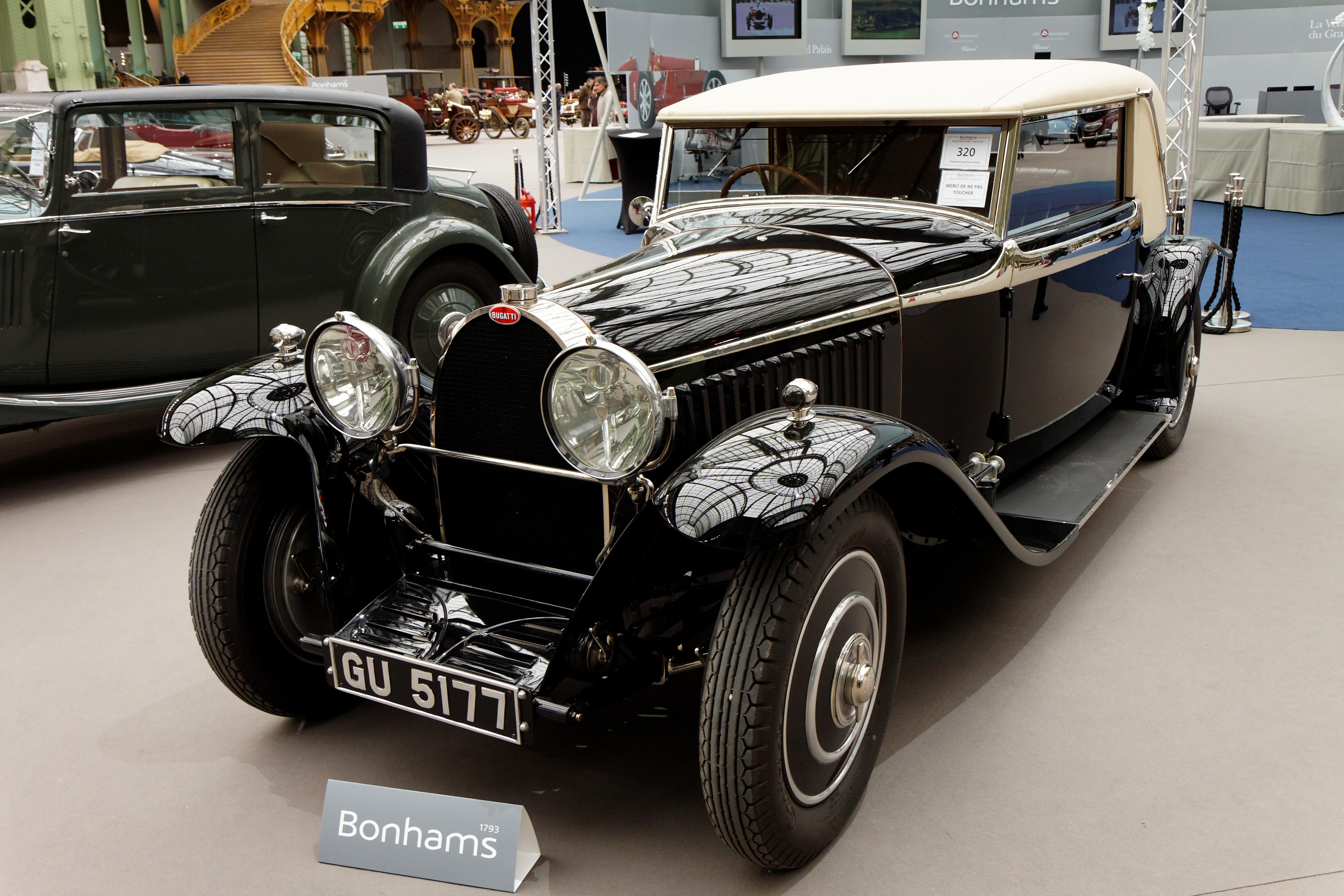 The making of this document was supported by Wikimédia France. (Submit your project!)